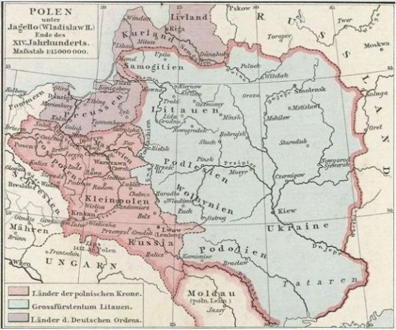 Map of Crown of the Kingdom of Poland and Grand Duchy of Lithuania, under Władysław II Jagiełło ca. 14 century.